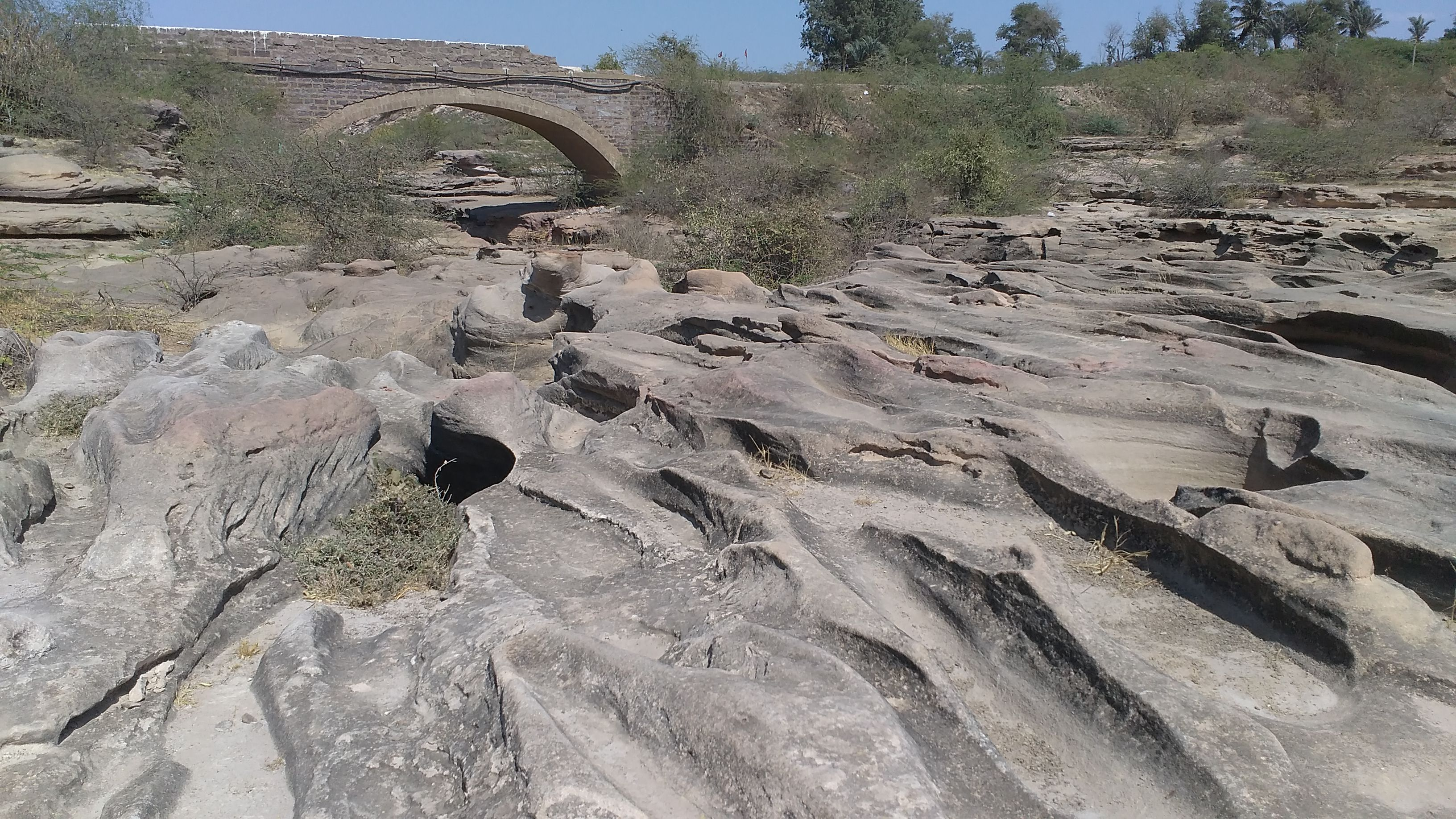 Formed during 2001 Earthquake.